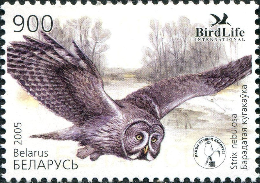 Stamp of Belarus